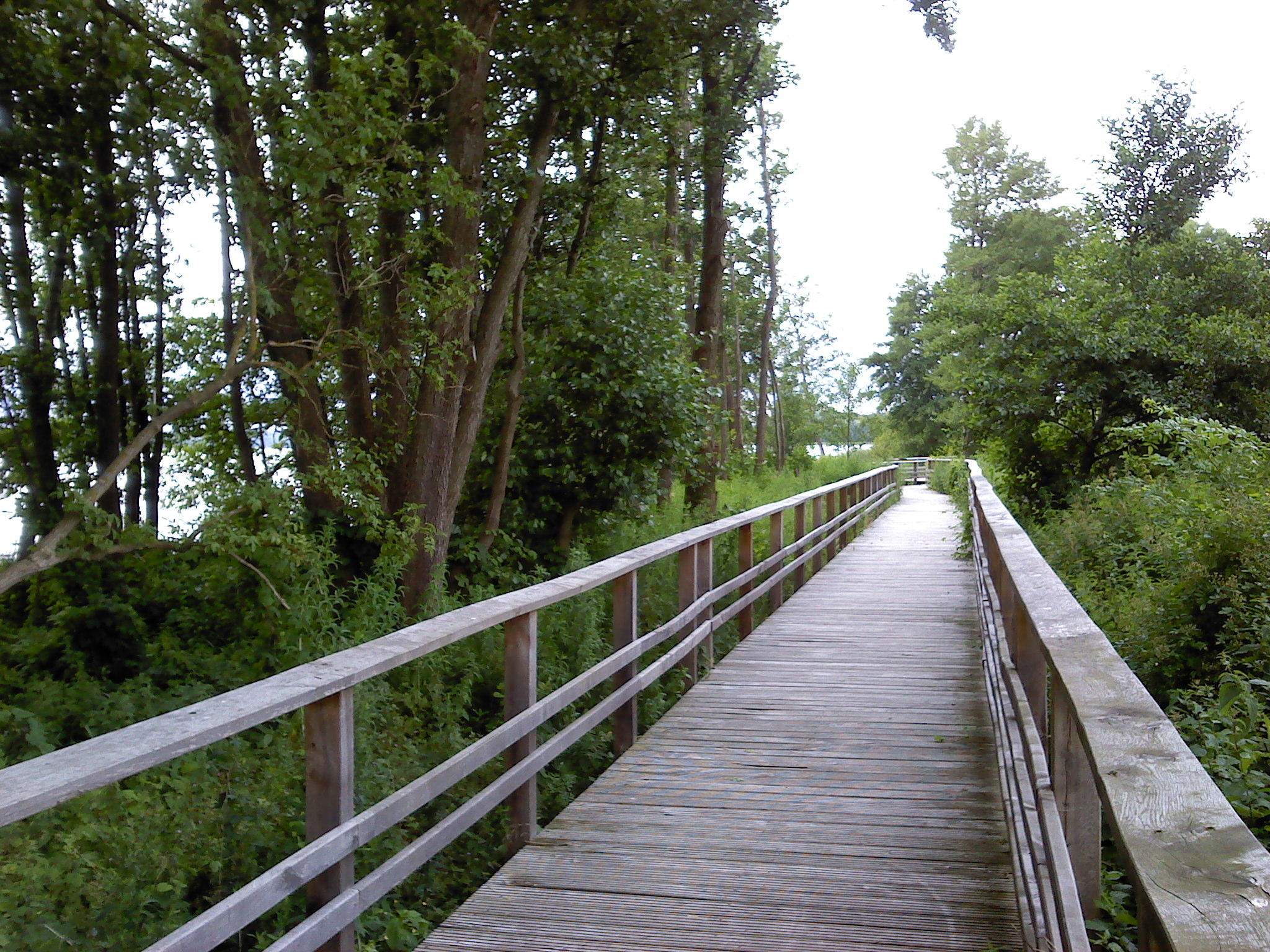 Walk trail along the lake in Hemmelsdorf